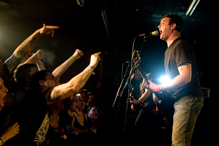 Live at Fest Five, Gainesville Florida, 2006.